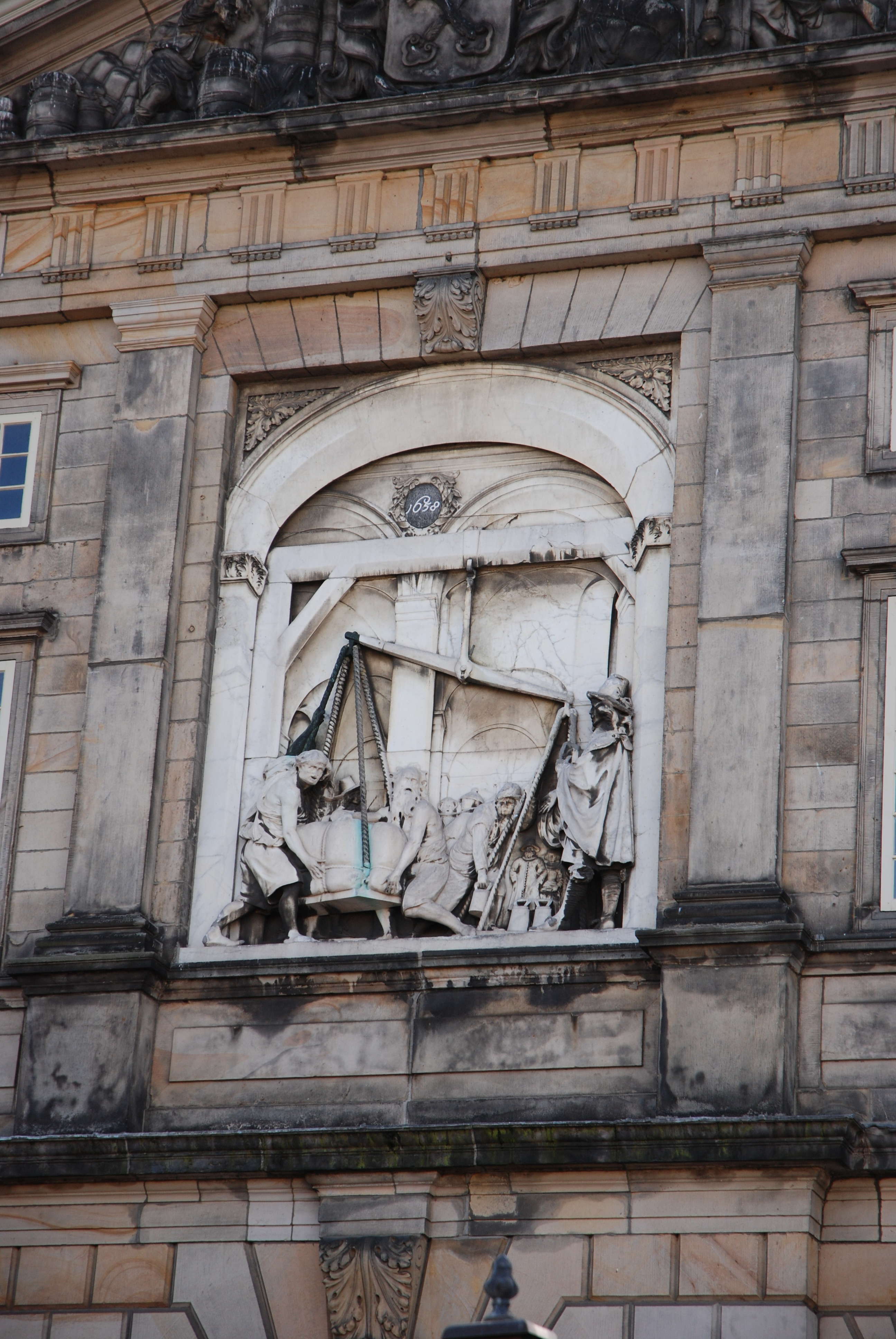 Sculpture at the Waag in Leiden Sculptor: Rombout Verhulst Date: 1657